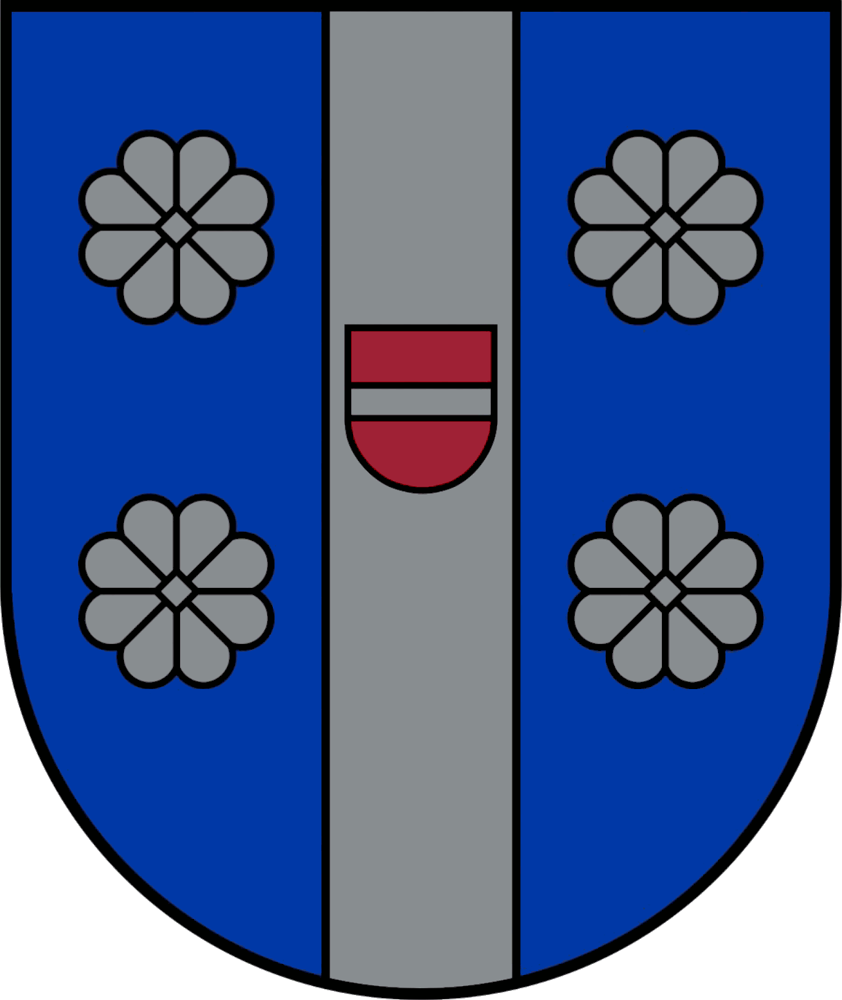 coat of arms of Ape Municipality, Latvia